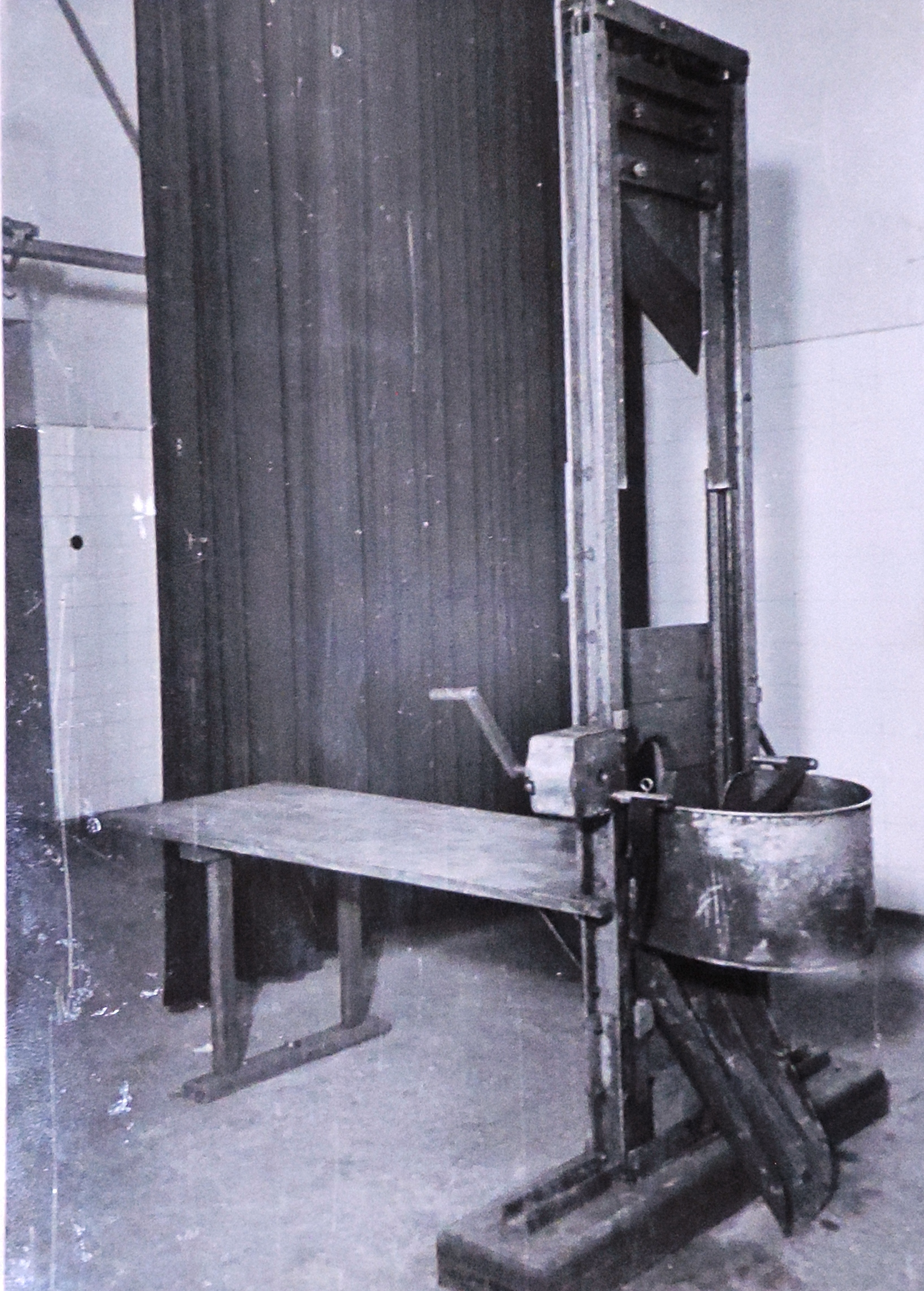 Photo of Gestapo torture instruments, Prague.